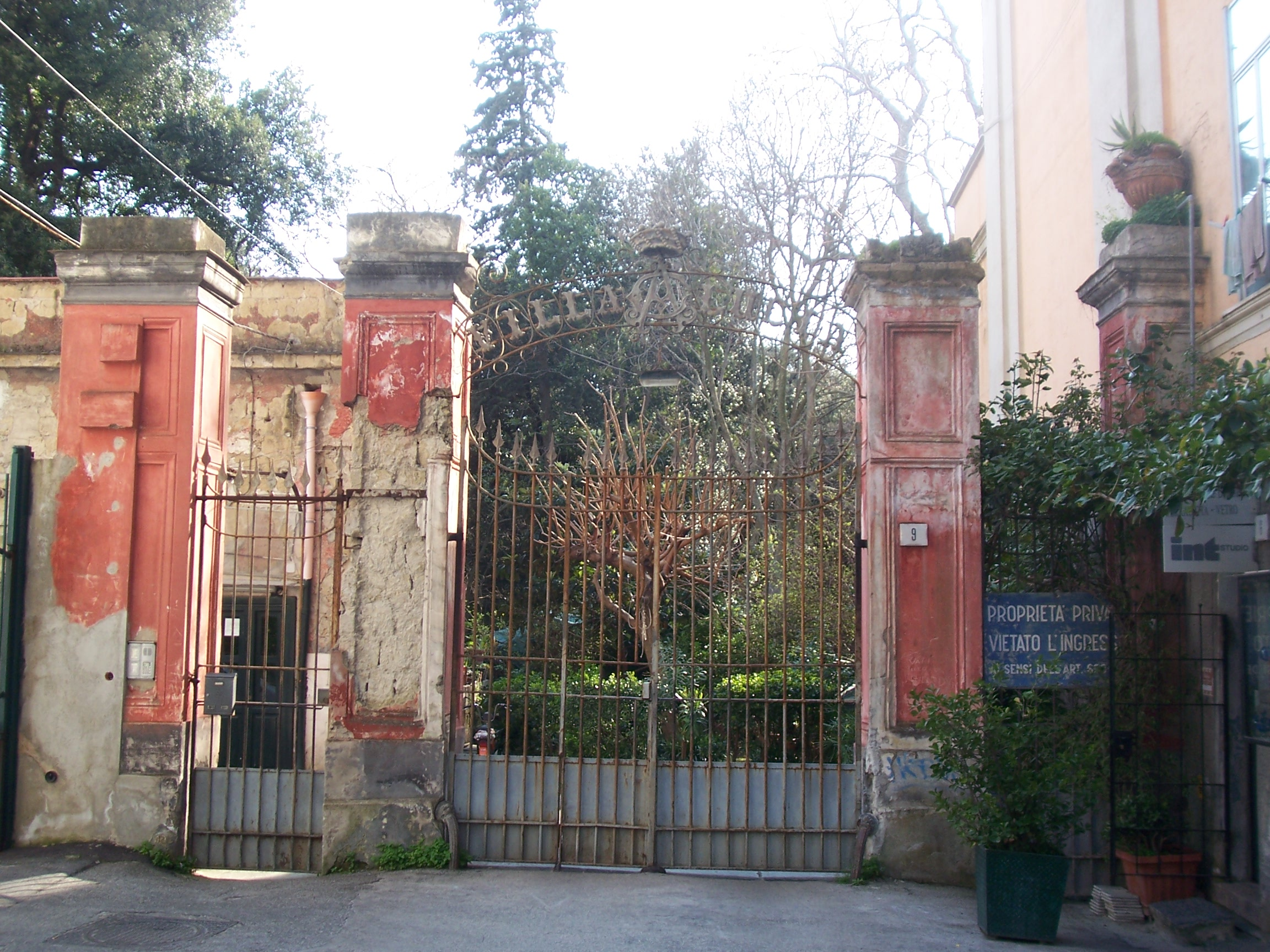 Villa Lucia, Naples